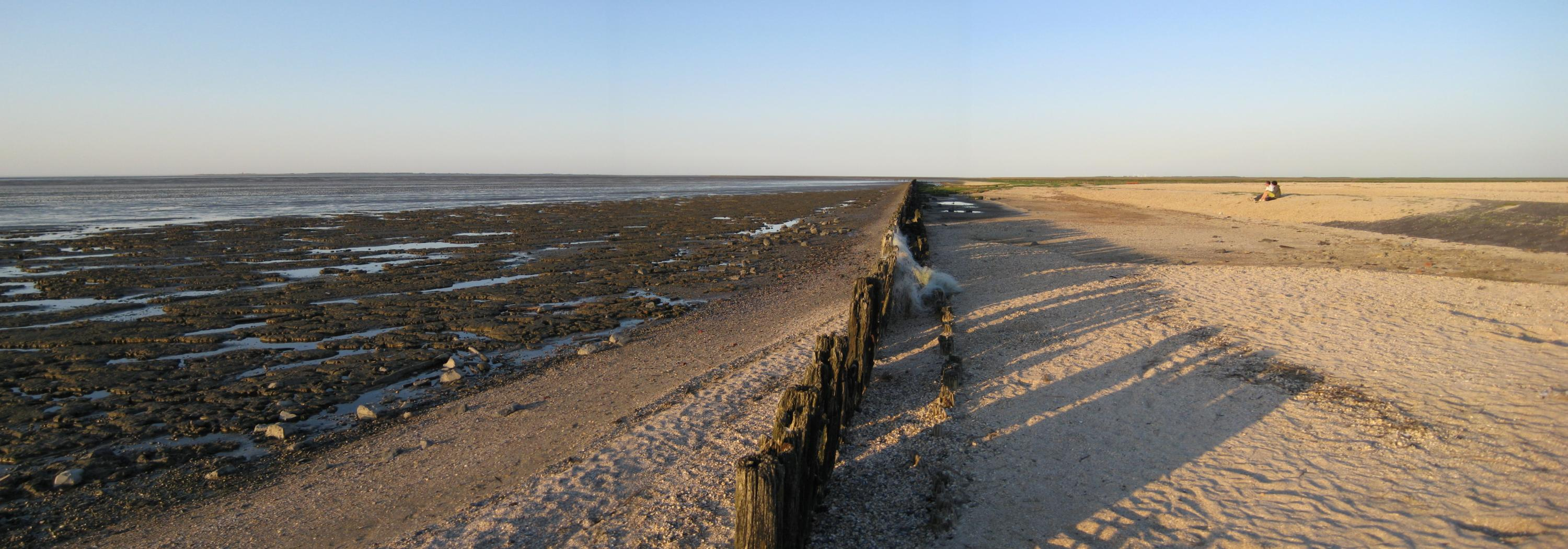 A view at the Wadden Sea near Peasens-Moddergat, a village in the Frisian municipality of Dongeradeel. In the background the island of Schiermonnikoog can be seen.